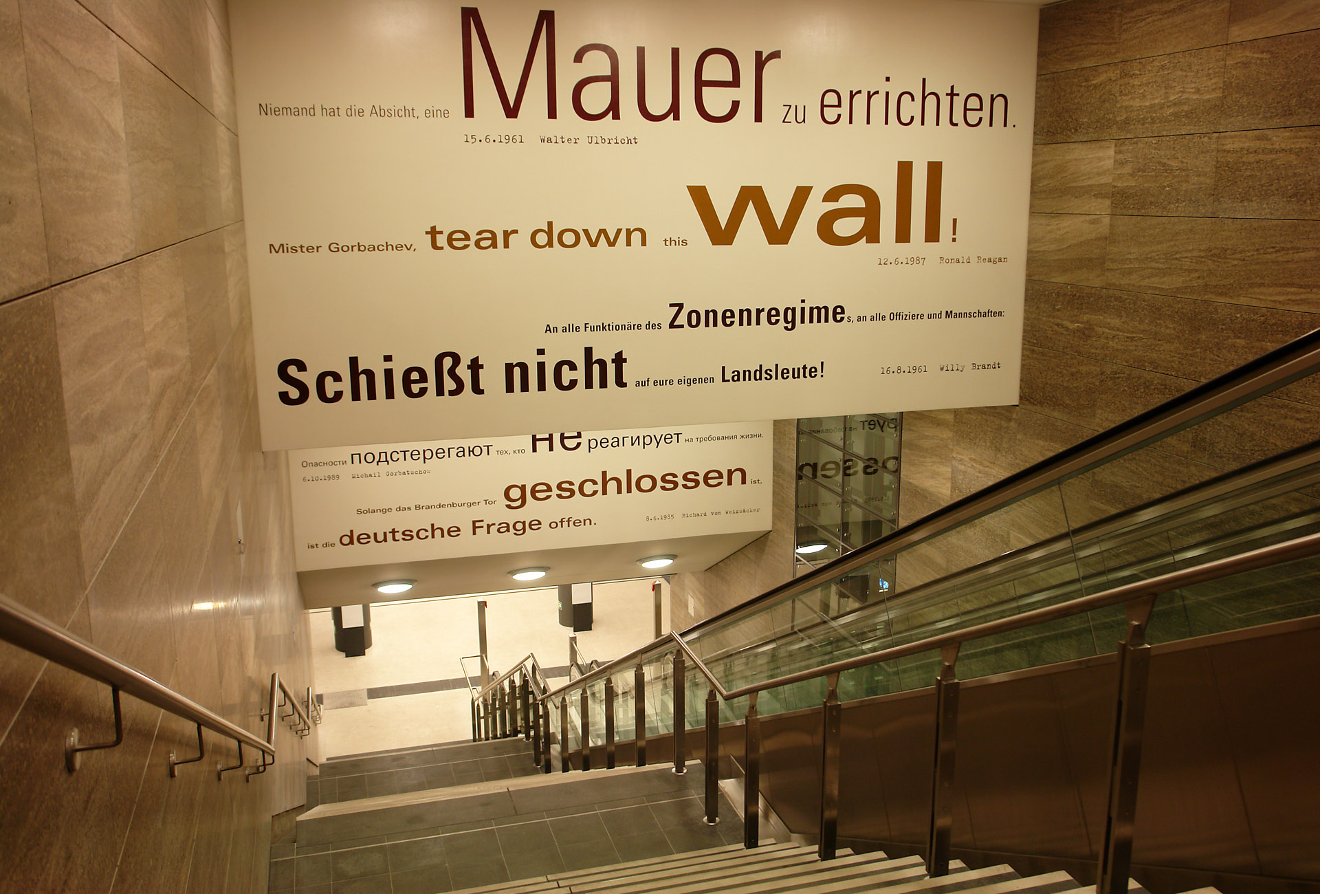 Berlin, Subway stop Brandenburger Tor.